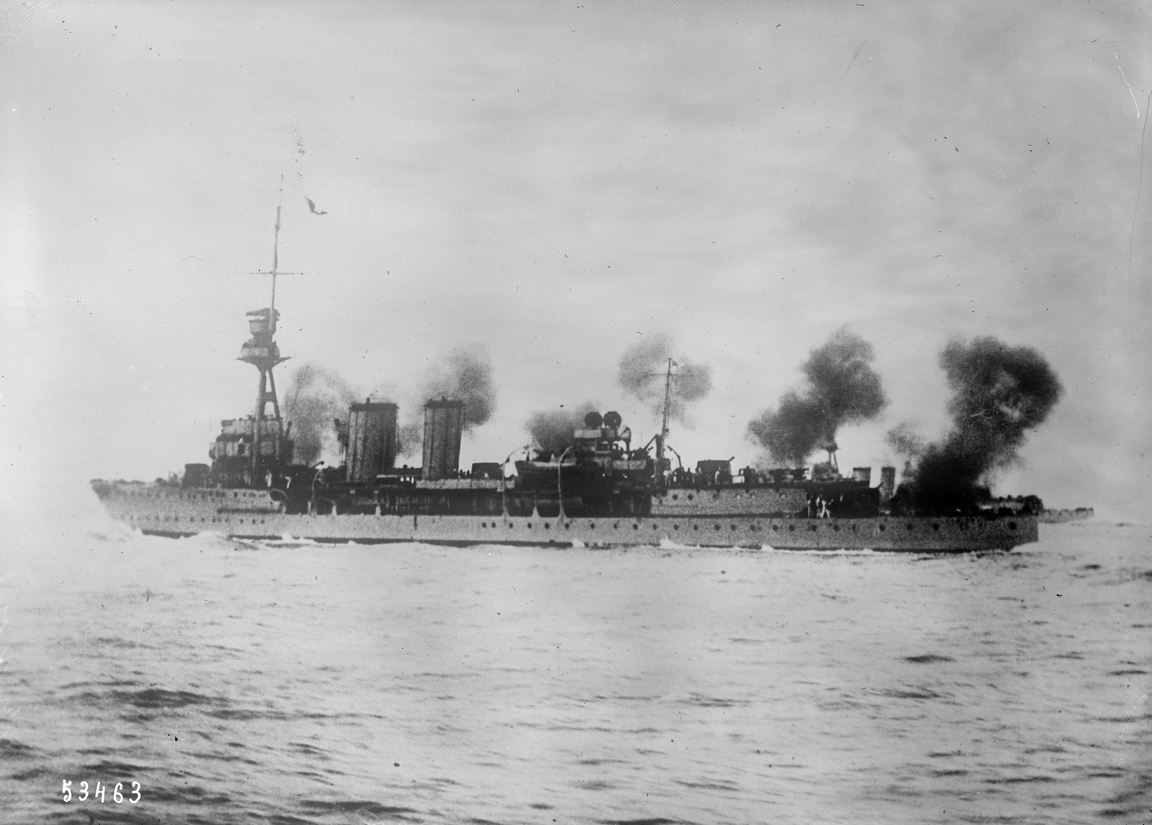 Navy in action against the Bolsheviks, the Centaur in the Black Sea. Western intervention in the Russian Civil War. In 1919. English or French ship firing cannon. Crimea?